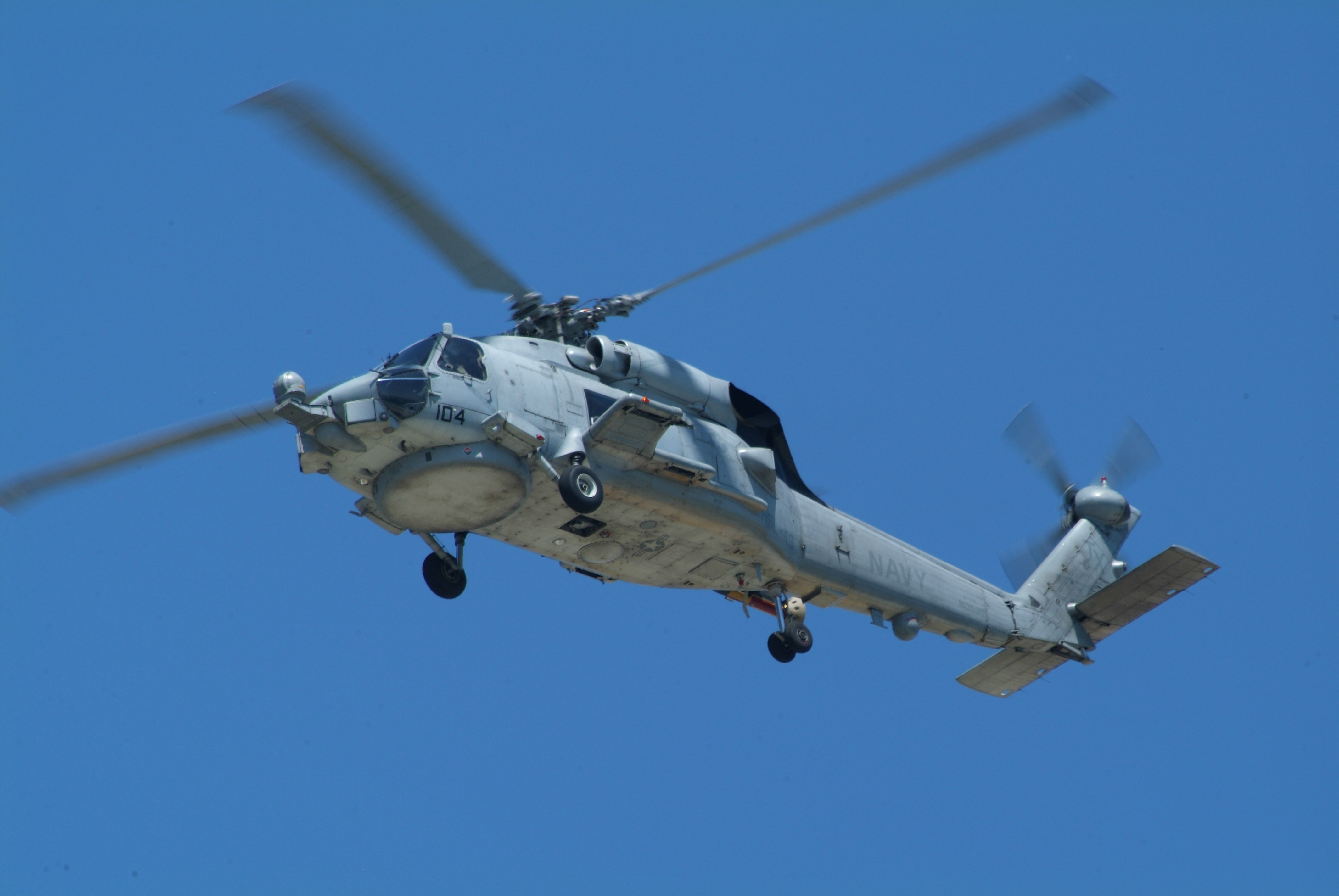 This helicopter, seemingly wears bureau number 163598 - which has crashed so maybe it is 163596 which has been with the unit for a long time.